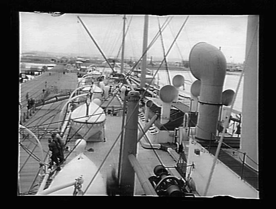 View of afterdeck of SS Medic at Port Melbourne. The ship had made its maiden voyage from Liverpool to Sydney. On th return voyage she carried the troops and horses of the 1st Victorian Contingent to the Boer War.